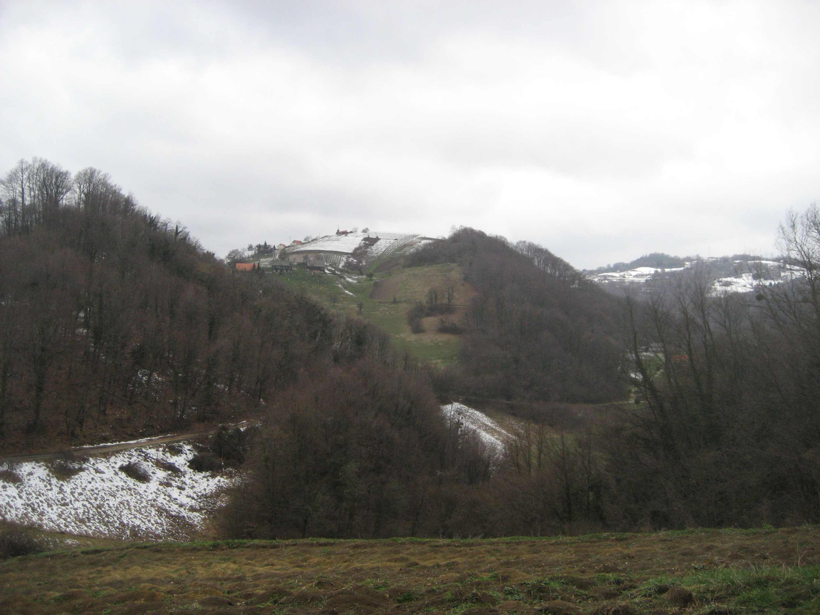 Landscape near Desinic in Croatia